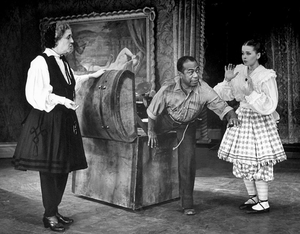 Promotional photograph for the Broadway production of Bloomer Girl, featuring (from left) Margaret Douglass, Dooley Wilson and Joan McCracken Caption reads as follows: A runaway slave is delivered in trunk by Evalina to office where Dolly publishes radical paper called The Lily and runs an underground station for fugitive slaves